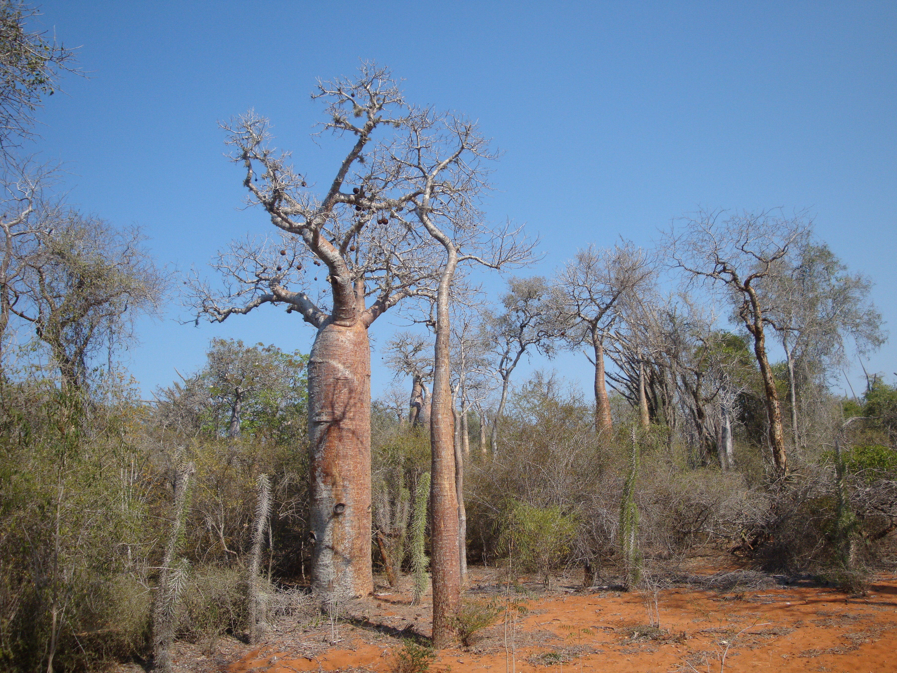 Typical vegetation in the spiny forest at Parc Mosa à Mangily, Ifaty, in southwestern Madagascar